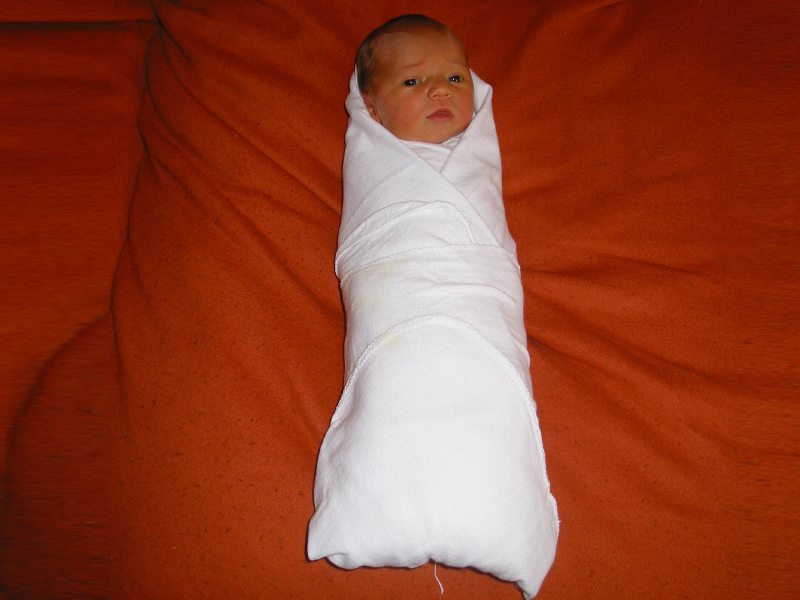 Swaddling (How to)